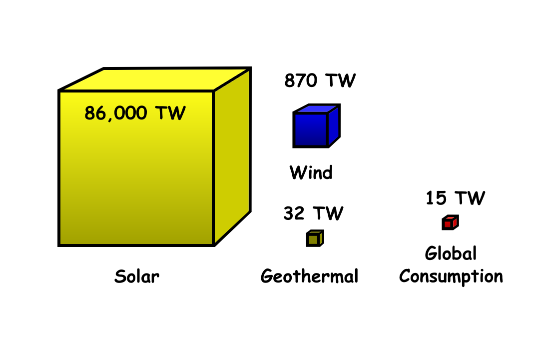 Useful energy (exergy) in surface incident solar radiation, wind and geothermal[1] compared to global consumption - Energy Information Administration (in 2004, 447.605 Quadrillion btu/yr = 14.965 x 10^12 Watts)[2]